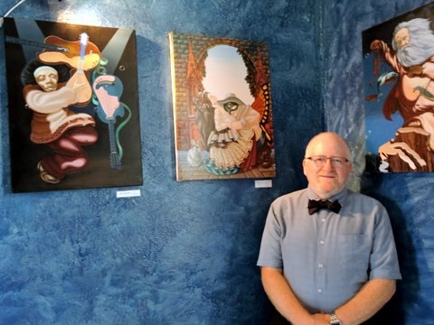 Victor Molev in the Saint-Frajou Art Museum